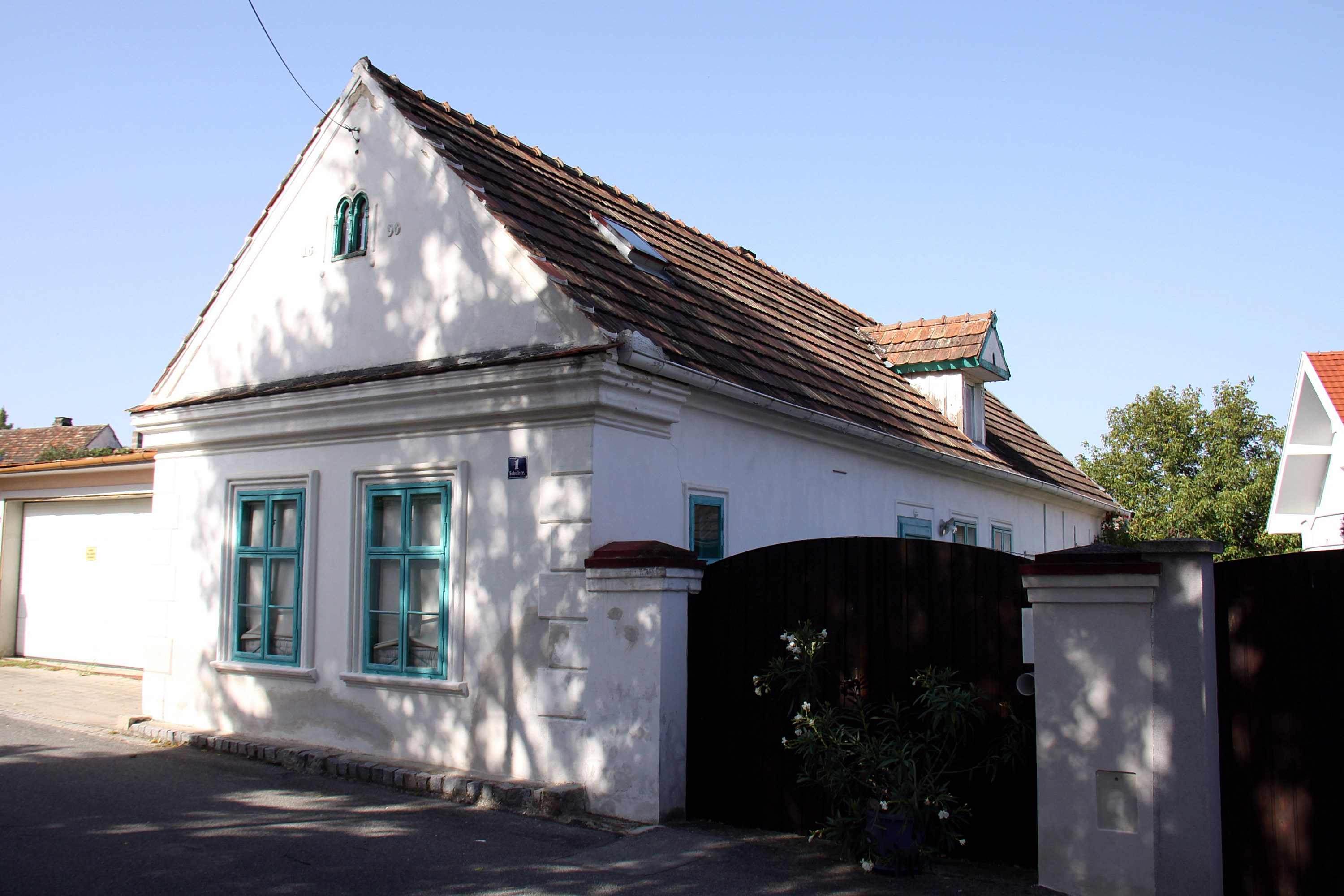 Oldest house of Marz from 1690 Object location47° 42′ 59.37″ N, 16° 25′ 00.01″ E